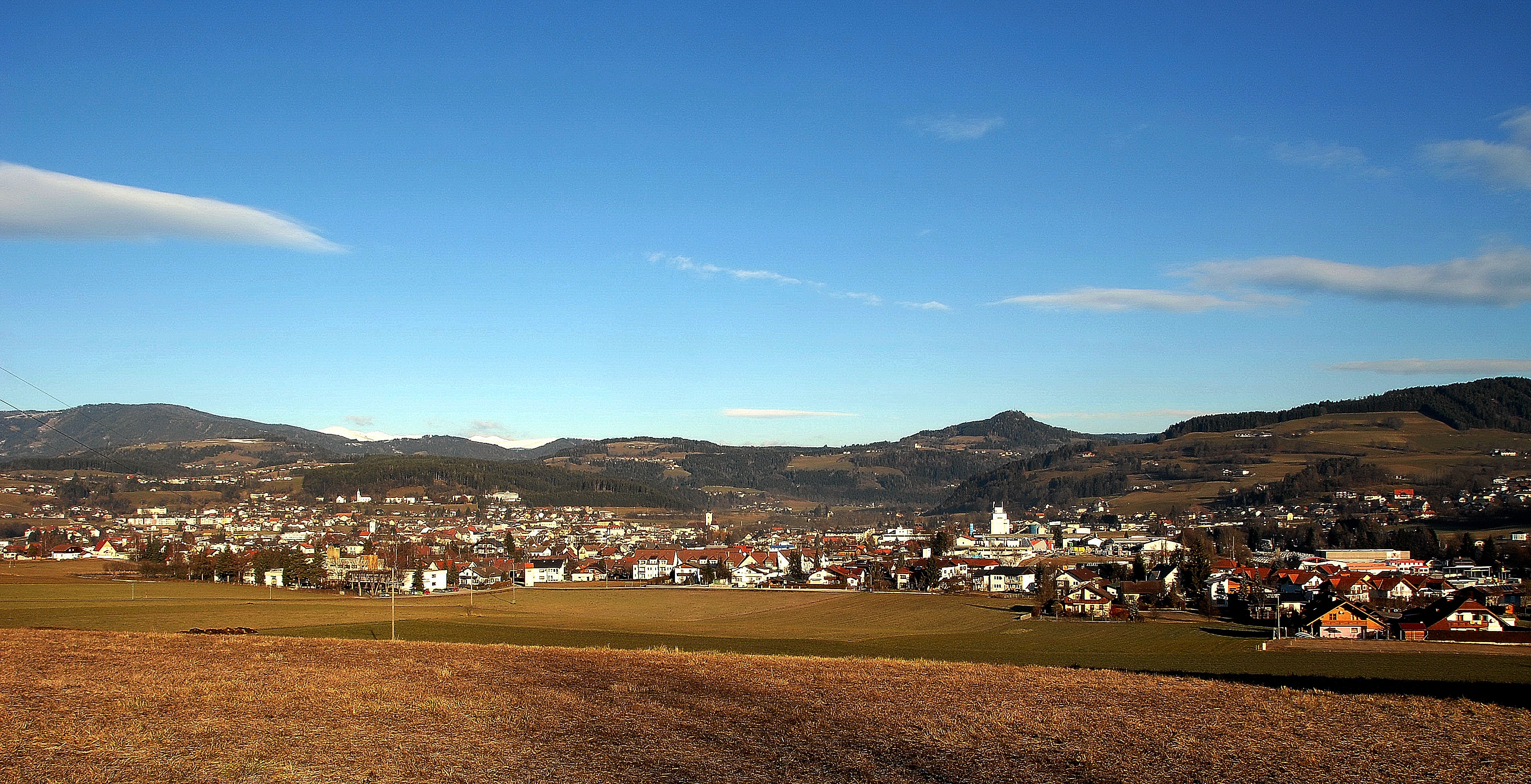 View of Feldkirchen from Rottendorf, municipality Feldkirchen, district Feldkirchen, Carinthia, Austria, EU